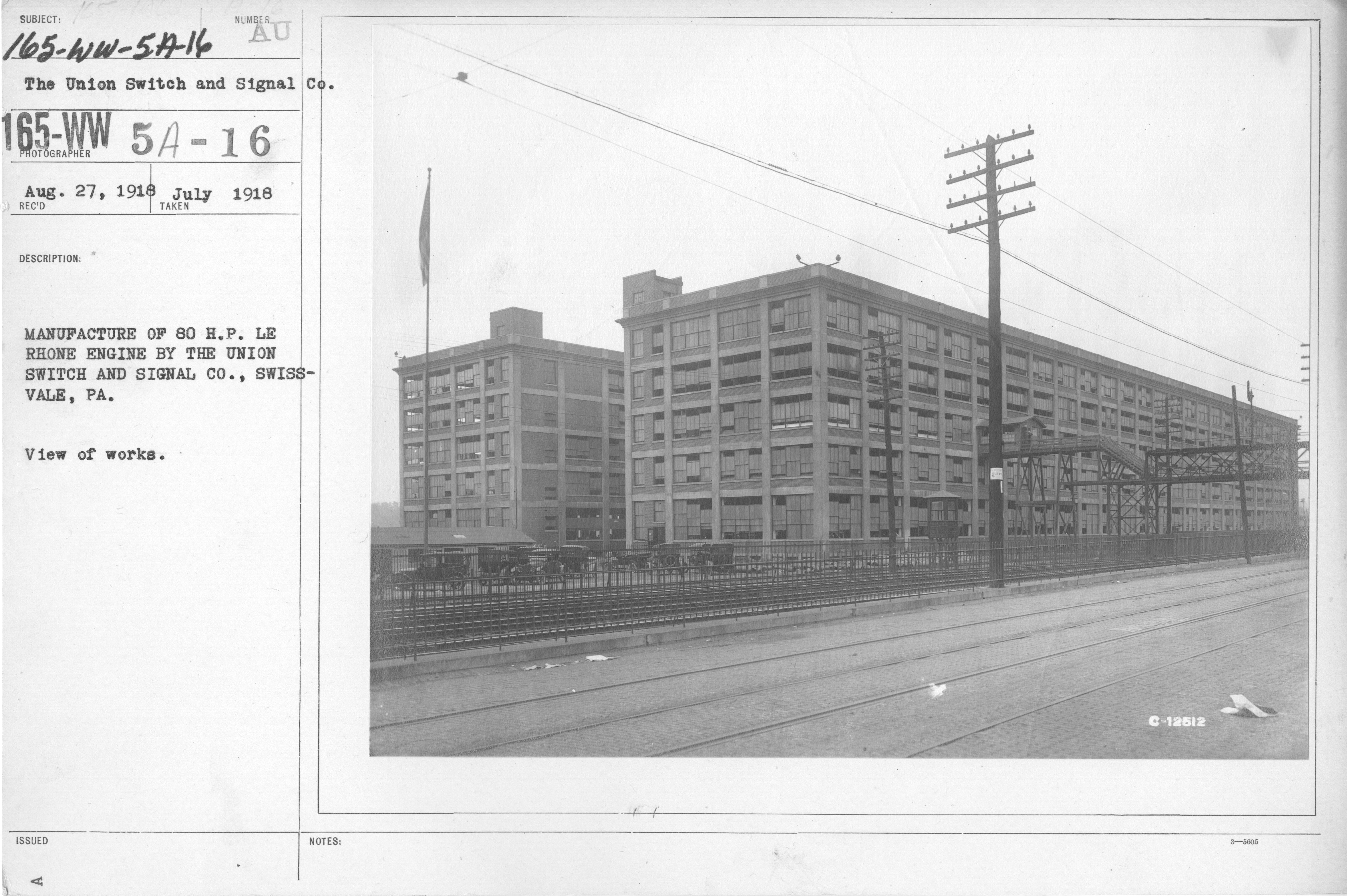 Scope and content: Date Taken: 7/0/1918 Photographer: Union Switch and Signal Co.